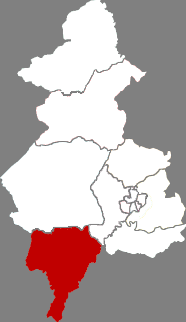 Location of Liaozhong district in Shenyang City, China